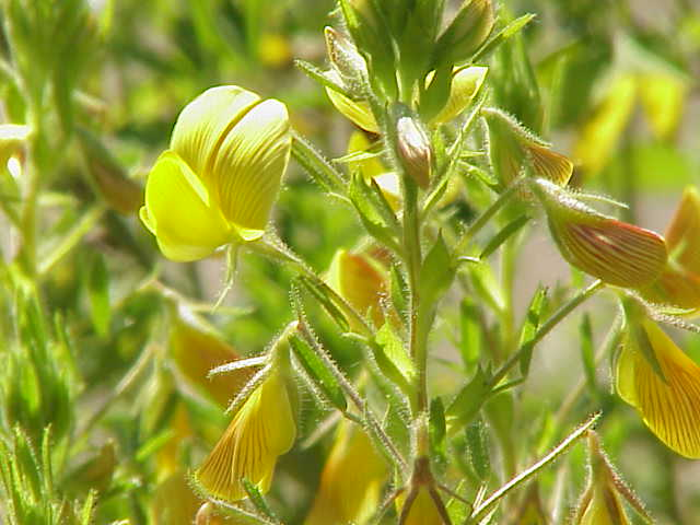 Species: Ononis natrix Family: Fabaceae Image No. 1